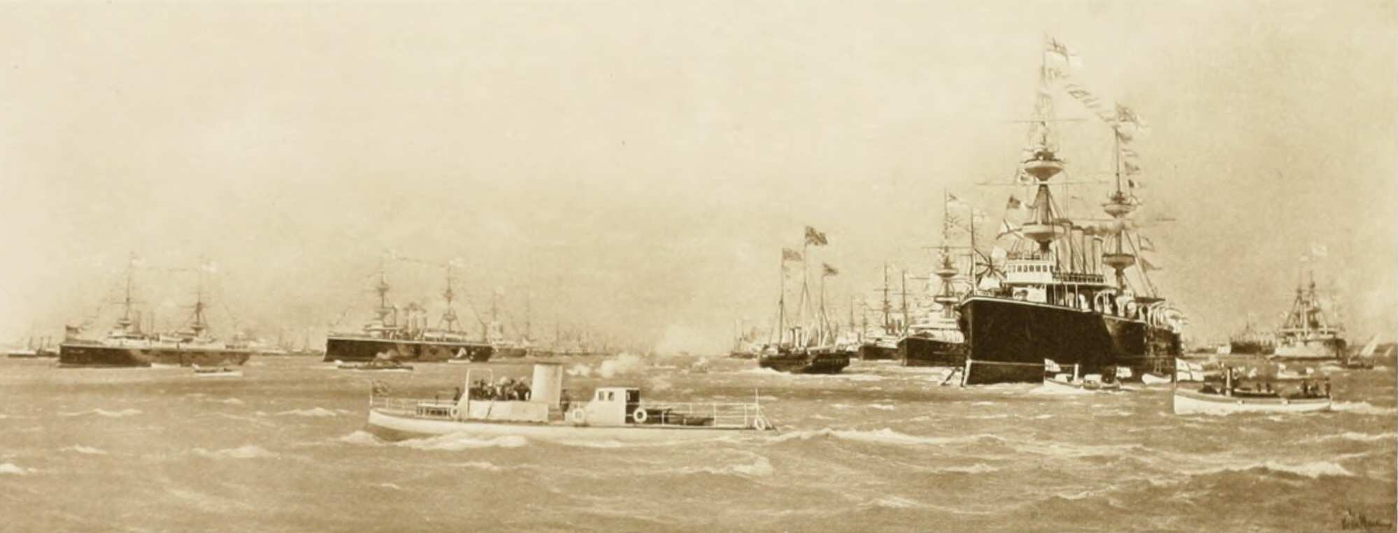 Caption reads painted for HM Queen Victoria, reproduced with permission of HM the King. Queen Victoria's Diamond Jubilee at Spithead, 26 June 1897.